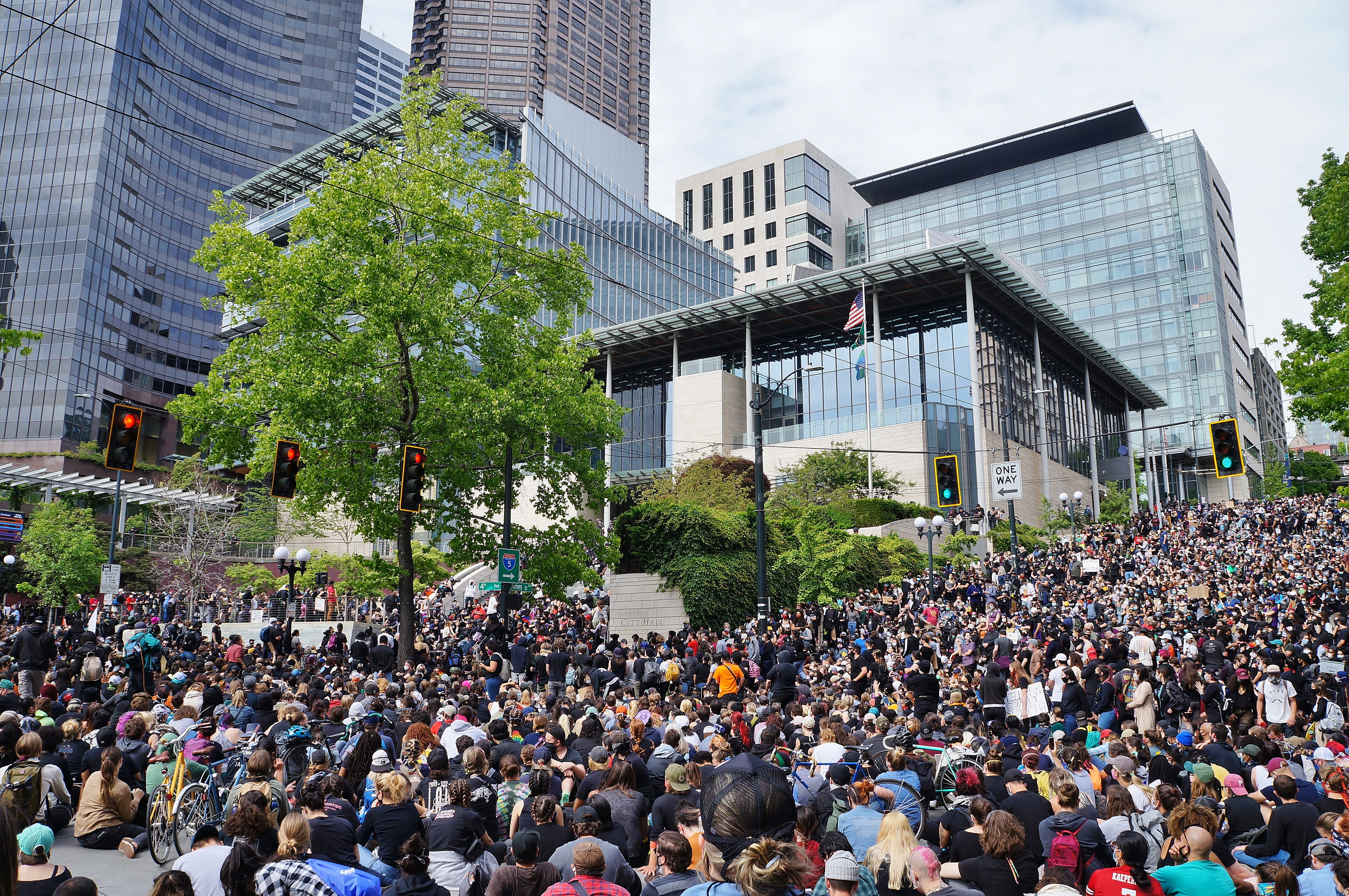 Protesters sit at the intersection of James Street and 4th Avenue in Downtown Seattle, in front of Seattle City Hall, as part of the George Floyd protests.